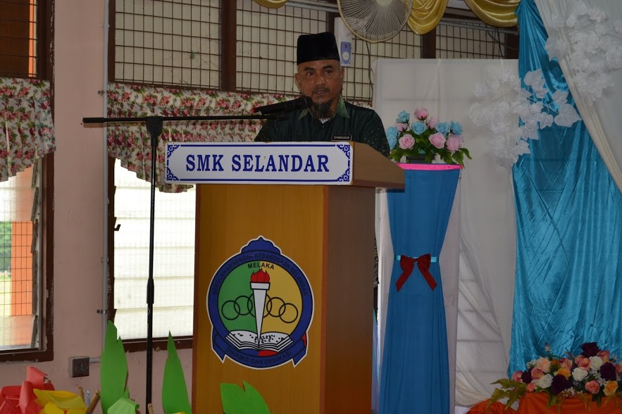 GAMBAR 7